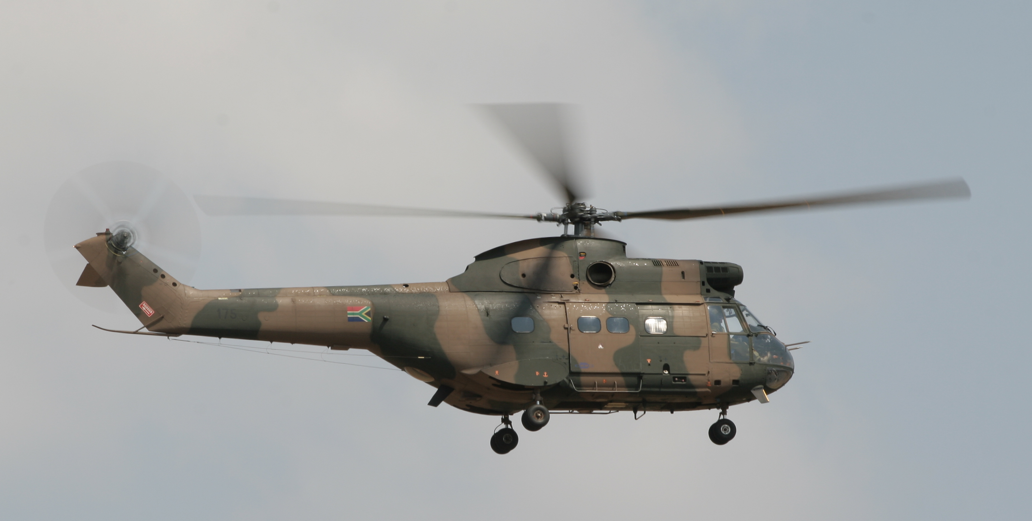 South African Air Force Aerospatiale Puma 175 (SA-330H), now flown by the SAAF Museum Historic Flight. [1]